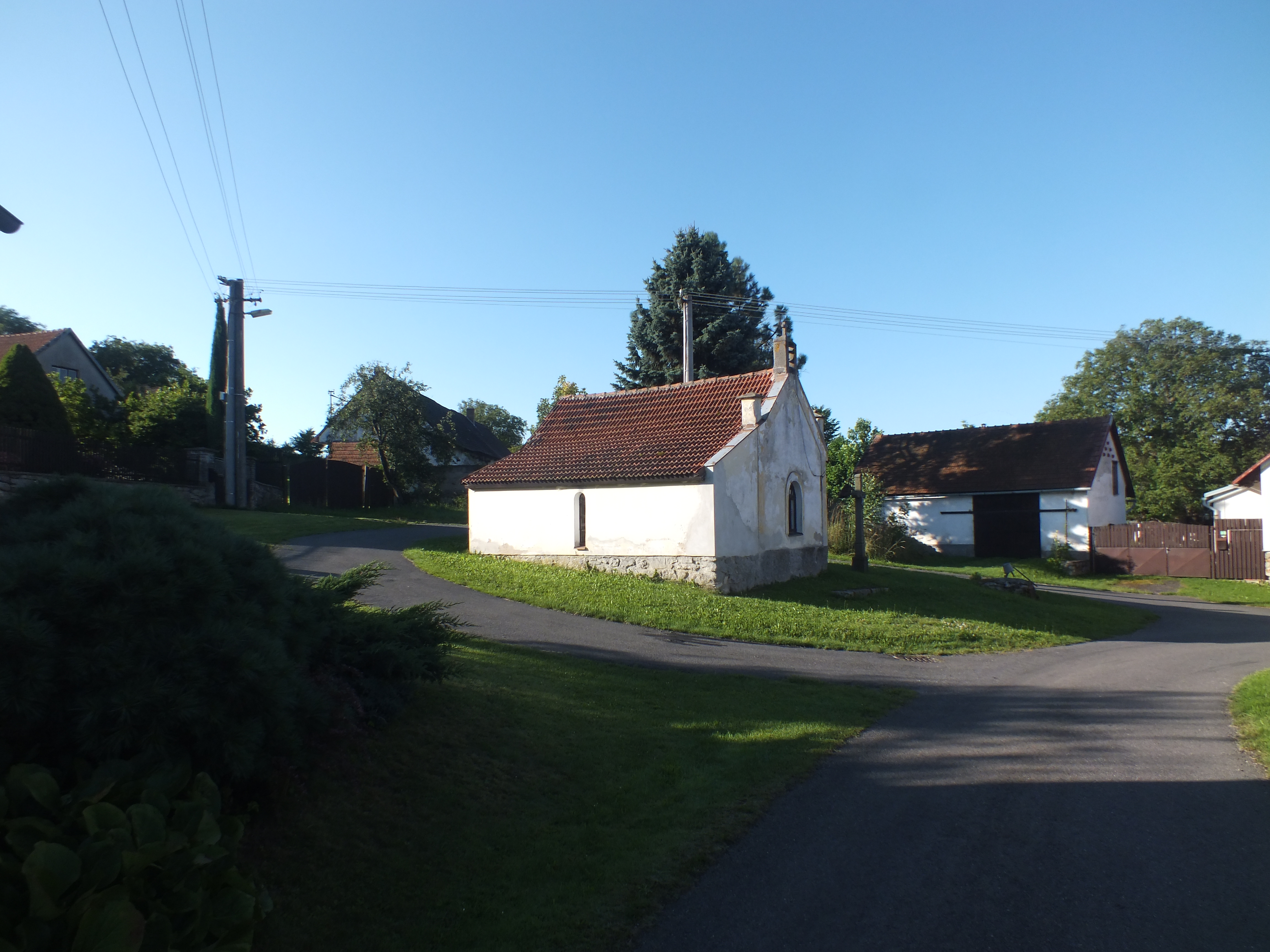 The square with the firehouse (in the centre of the photo) in Smrkov